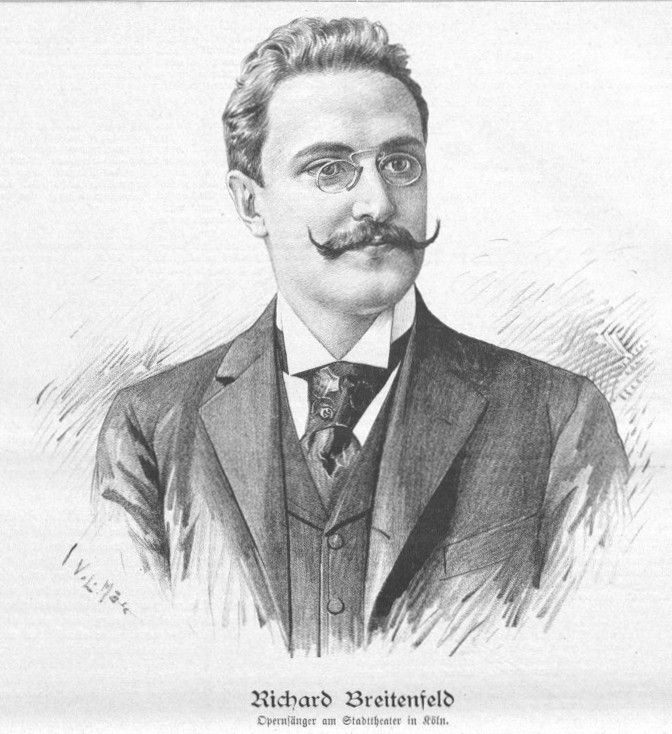 Portrait of Richard Breitenfeld (1869-1944), German opera singer.